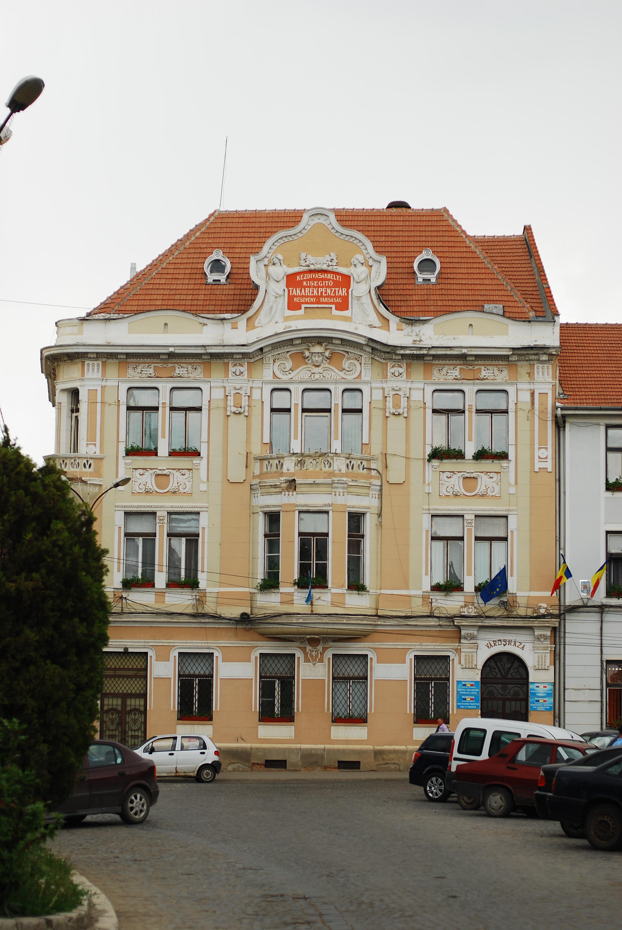 City hall of Târgu Secuiesc, Covasna County, Romania